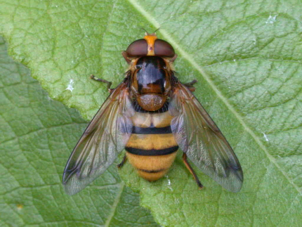 Volucella inanis (Diptera: Syrphidae) Cambridge, England